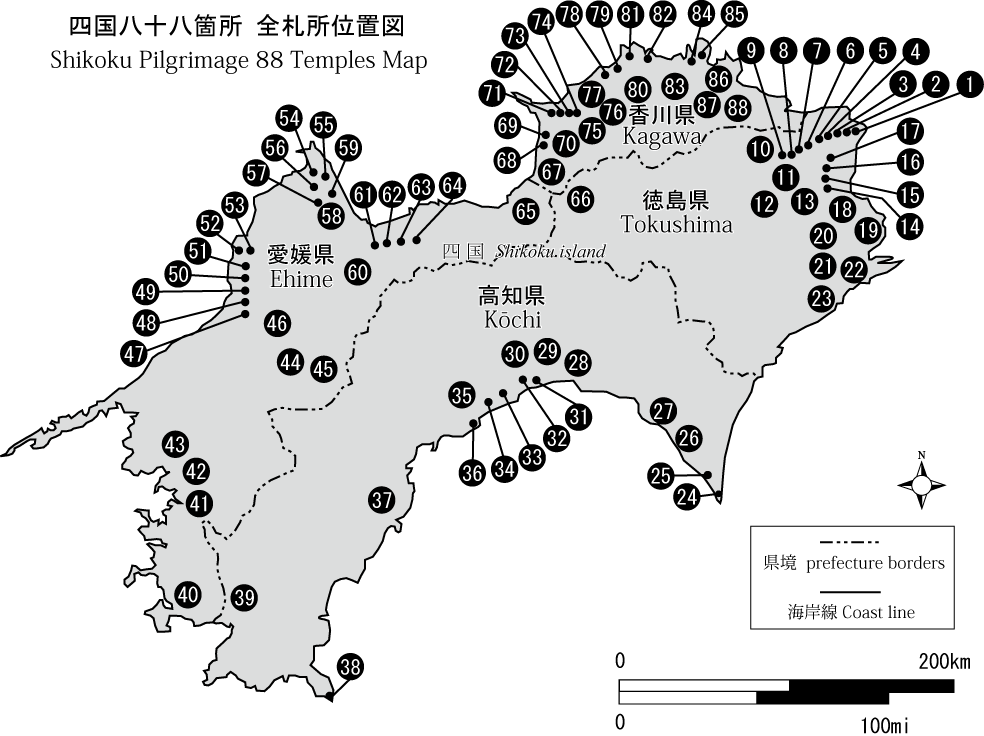 Shikoku Pilgrimage all 88 temples map, Shikoku island, Japan.